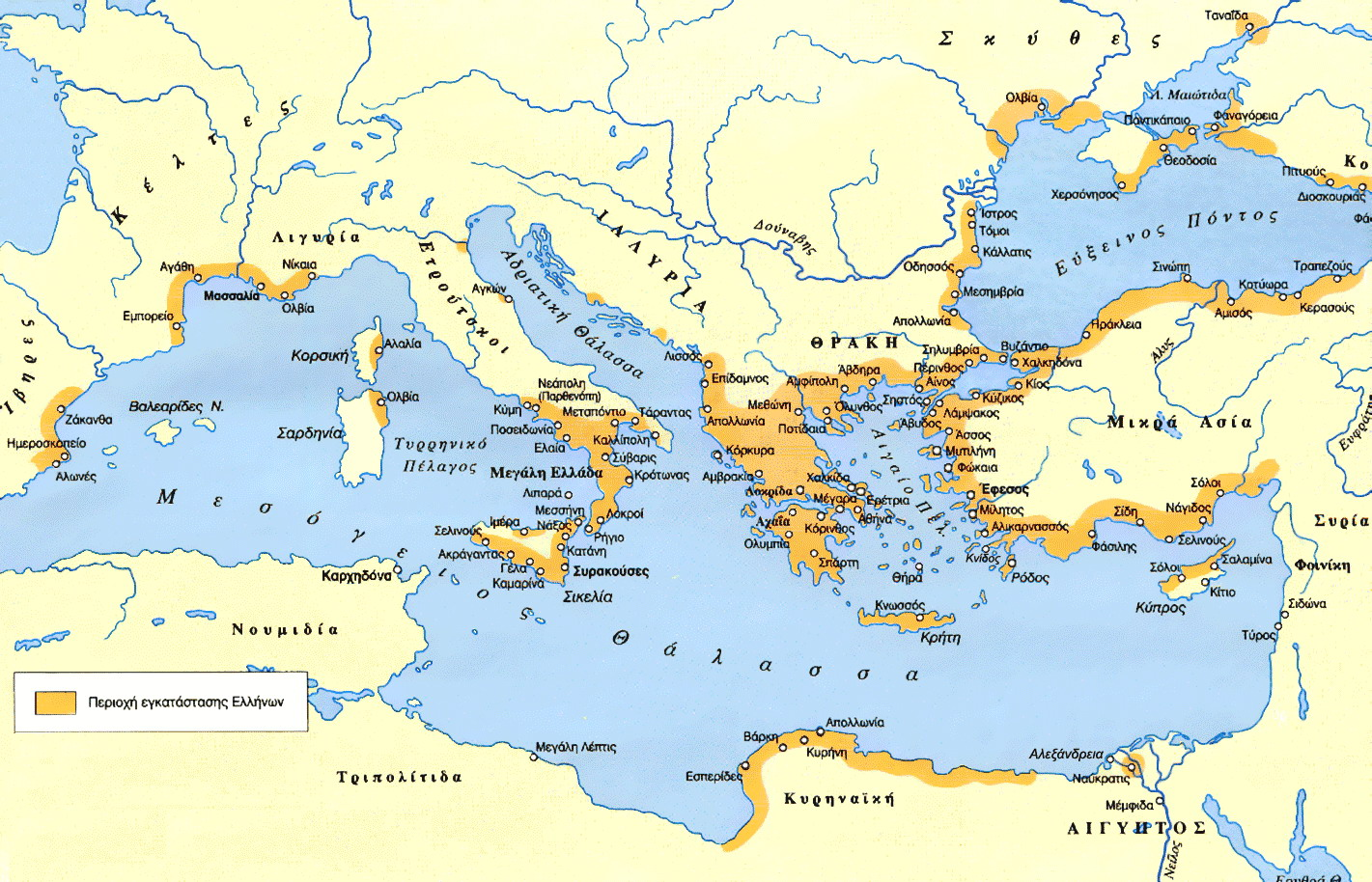 Ancient Greece